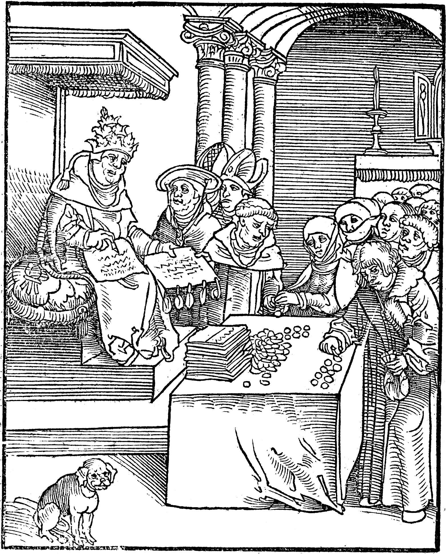 woodcut of the pope selling indulgences, from Passionary of the Christ and Antichrist